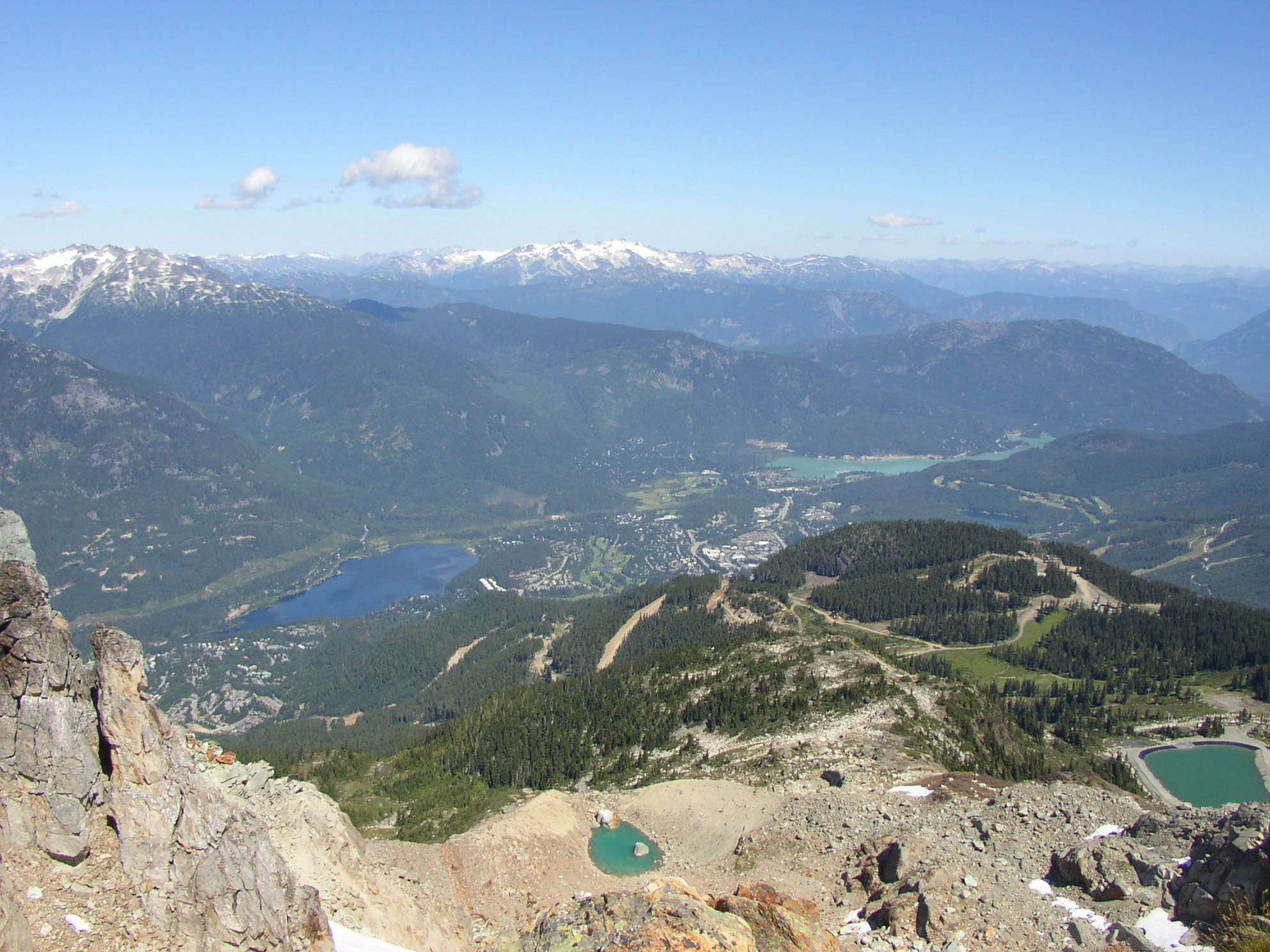 Picture taken from whistler mountain and shows the town of whistler and it surroudings. Taken in summer.